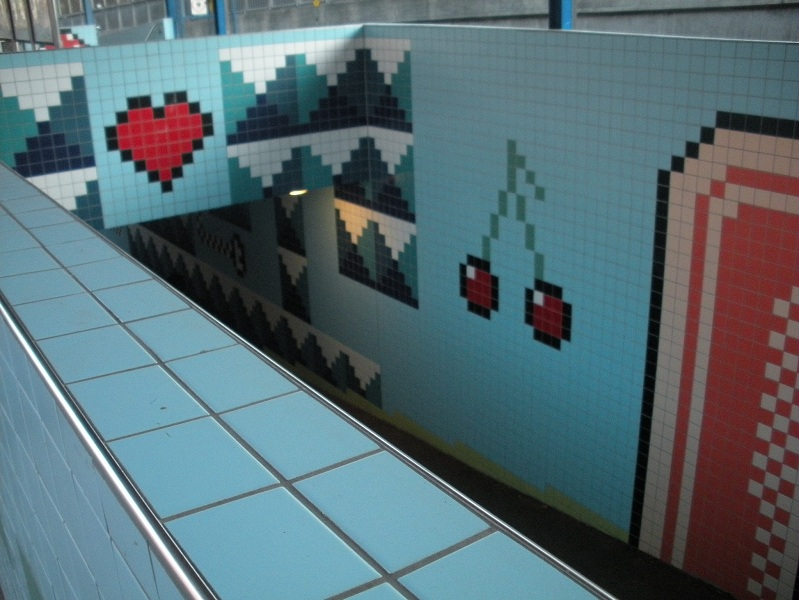 art on Thorildsplan station in Stockholm inspired by computer games (Lars Arrhenius)